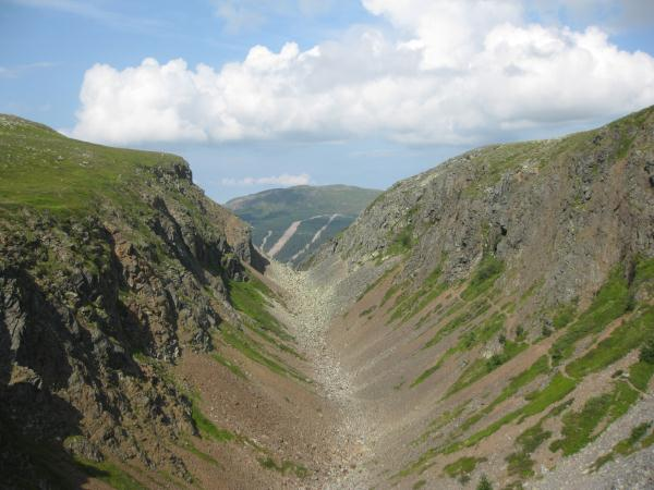 Dromskåran